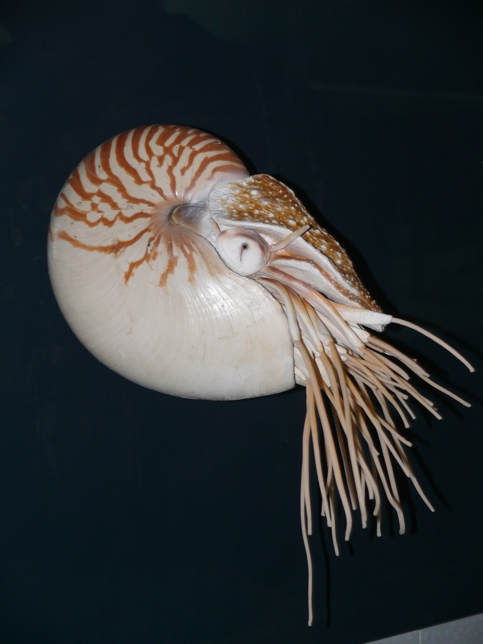 Model of a Nautilus